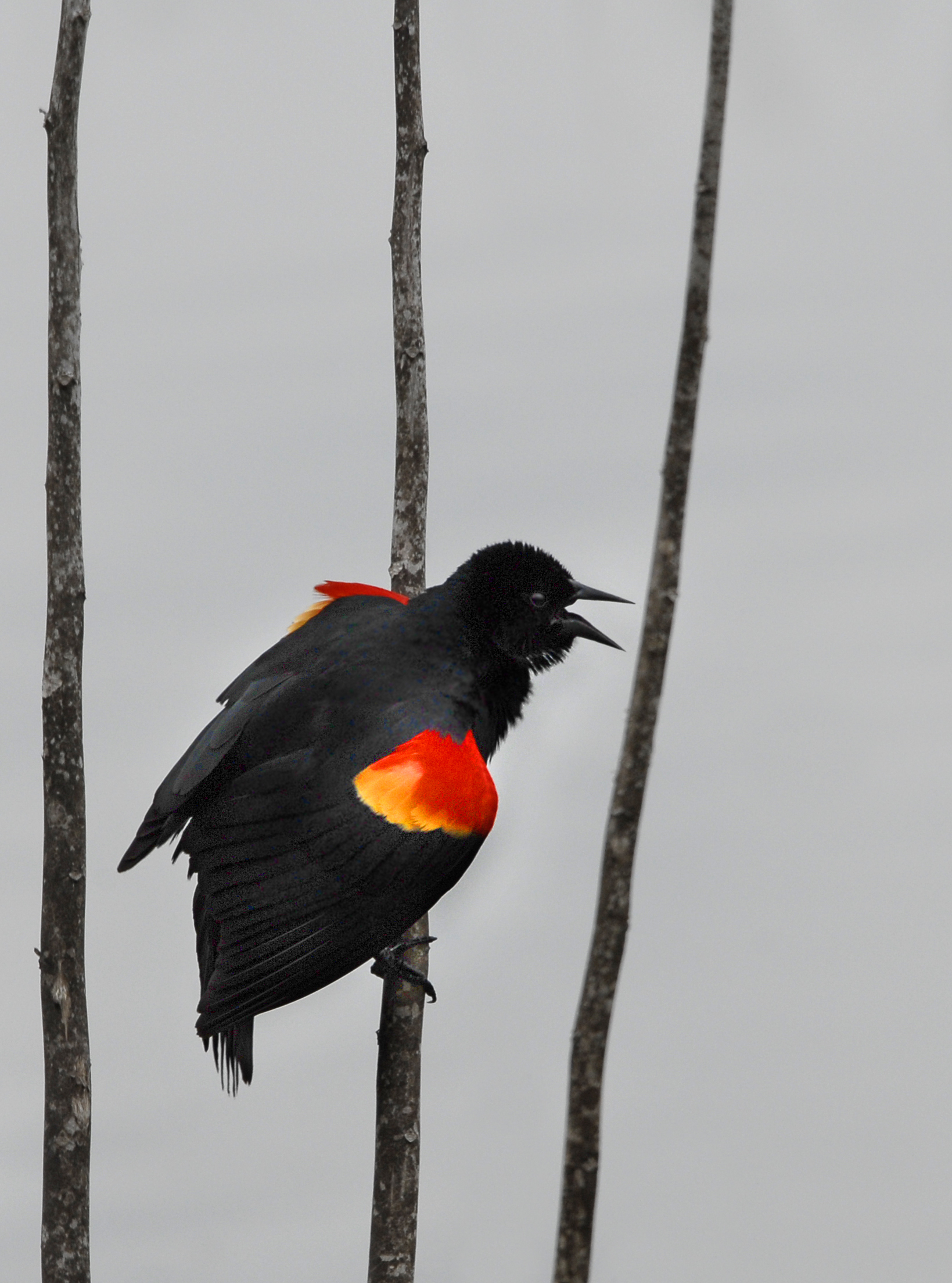 Red-winged Blackbird at Lake Woodruff